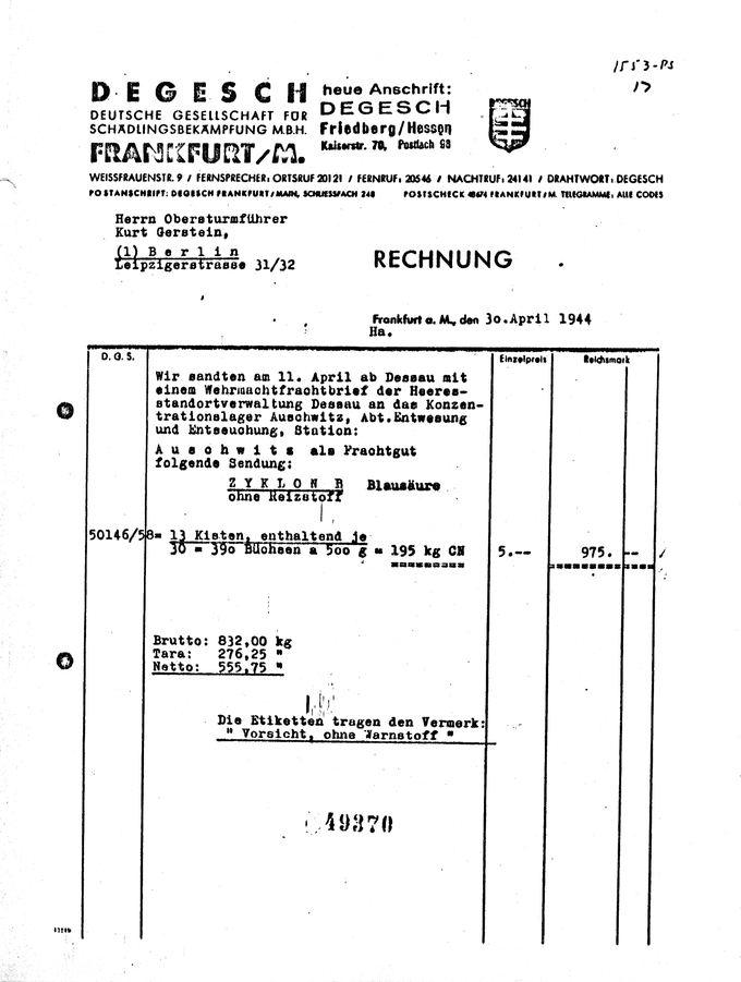 The bill from DEGESH company, dated 30.04.1944, for the delivery of 195 kg of a Cyclone B to Auschwitz.